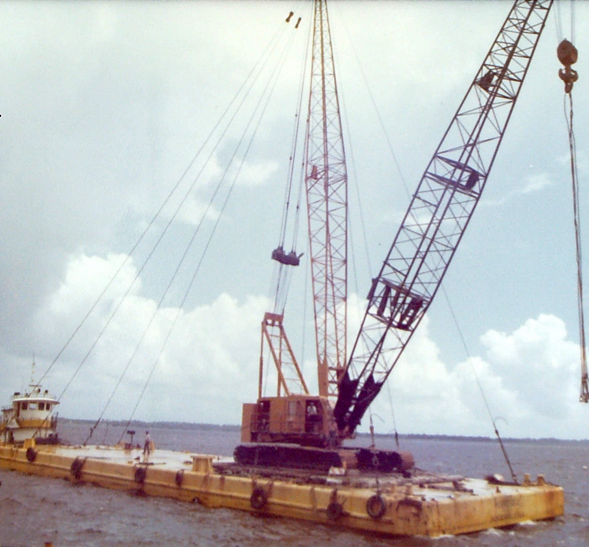 Mobro Marine tug and barge with an American crane in 1976.